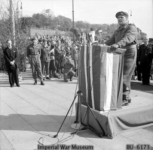 HRH Crown Prince Olaf in battle-dress addressing the welcoming crowd on the quayside at Oslo following his journey home on a British destroyer, accompanied by Major General Urquhart CBE DSO, Commanding 1st Airborne Division.